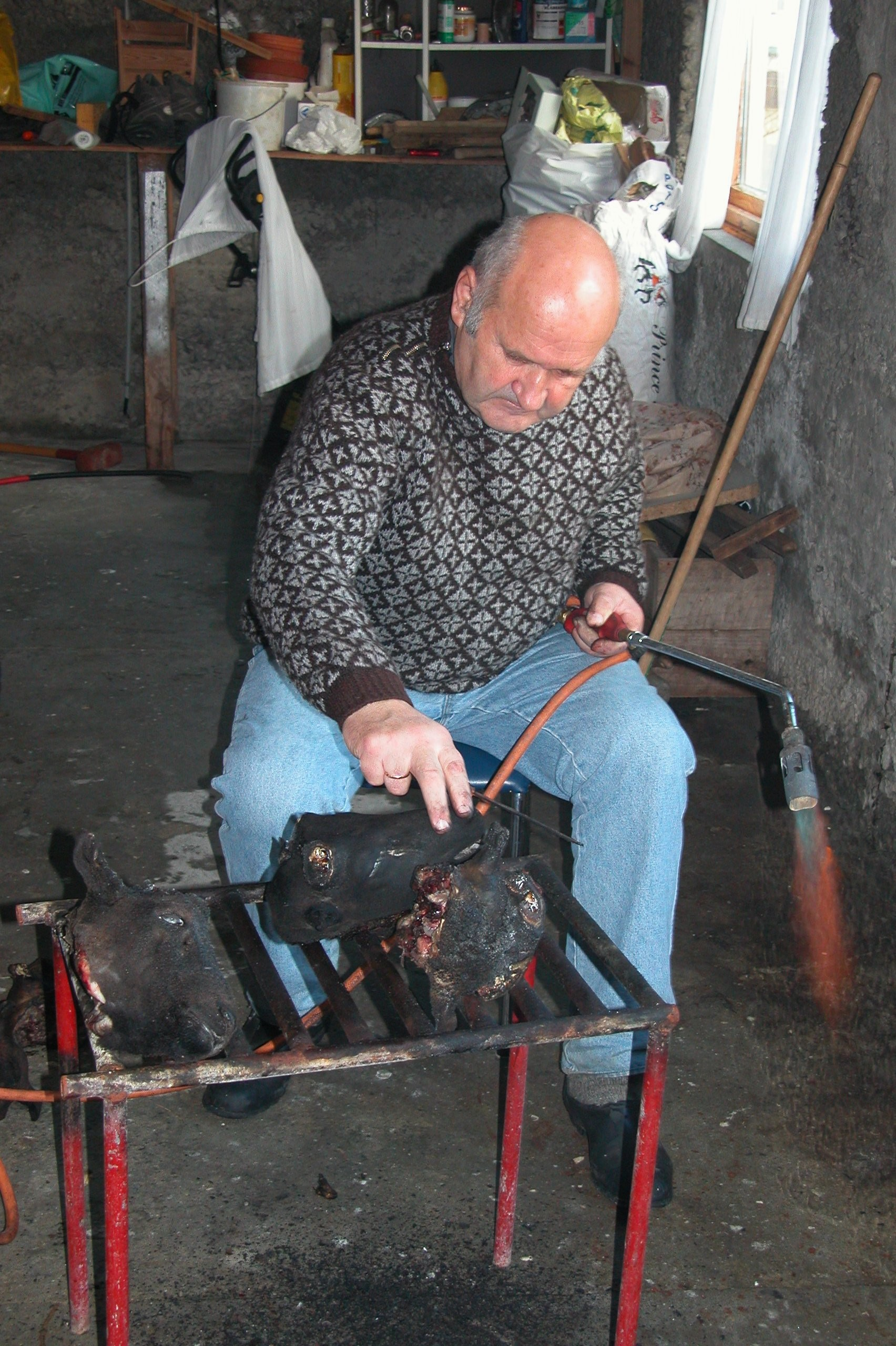 Sheep-head, a faroese speciality